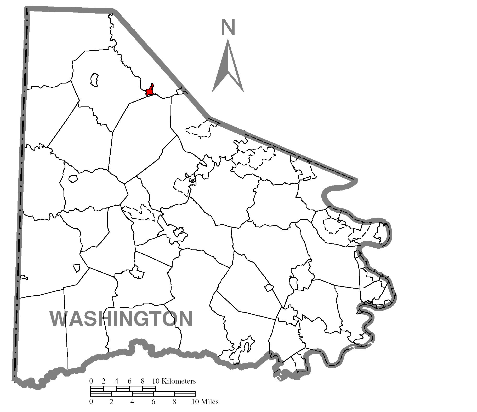 Map of Washington County higlighting Midway.